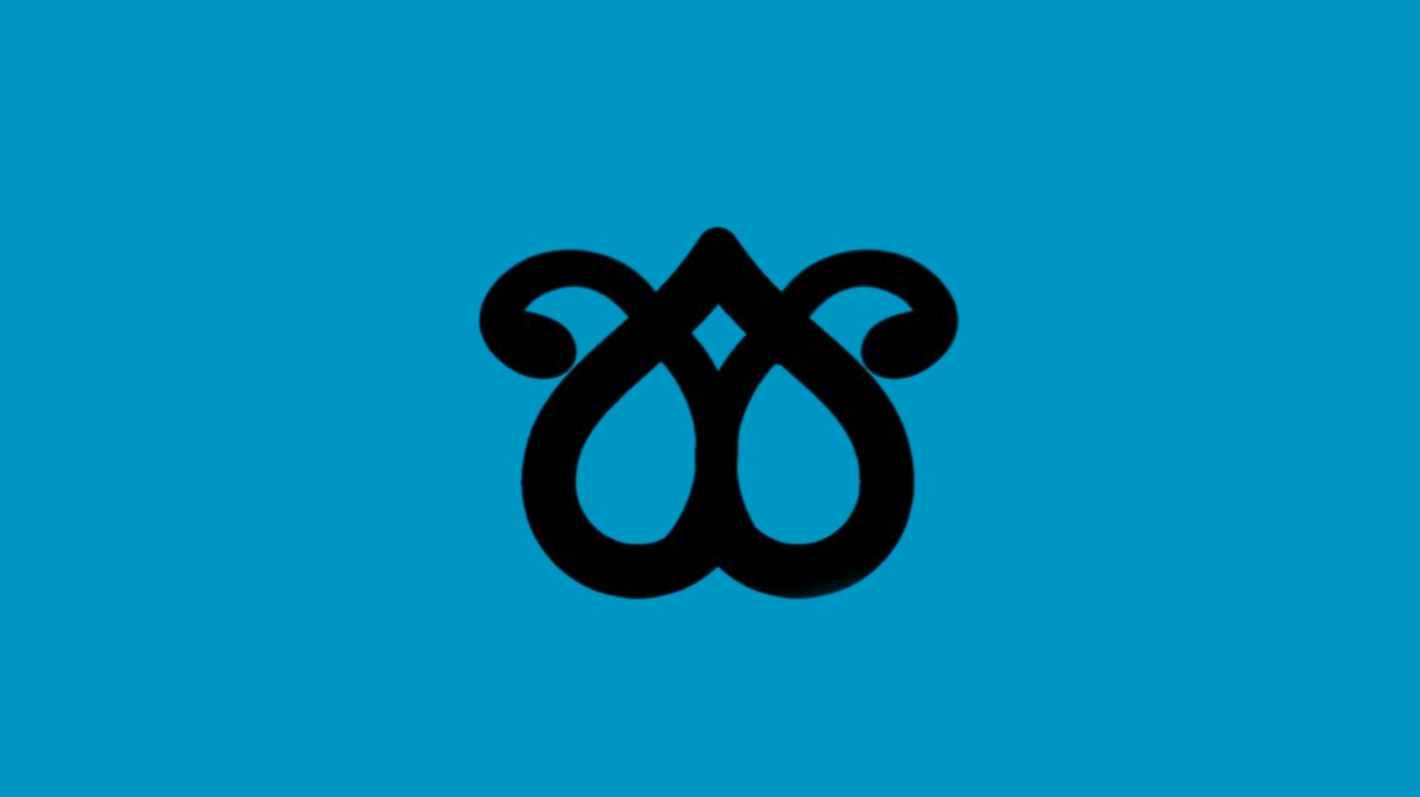 Flag of the Karakoyunlu State according to İ.H. Uzunçarşılı: "1937: Anadolu Beylikleri ve Akkoyunlu, Karakoyunlu Devletleri" Ankara:Türk Tarih Kurumu, 1988. The symbol is the knot of felicity, used by Qara Qoyunlu as a symbol on their coins.